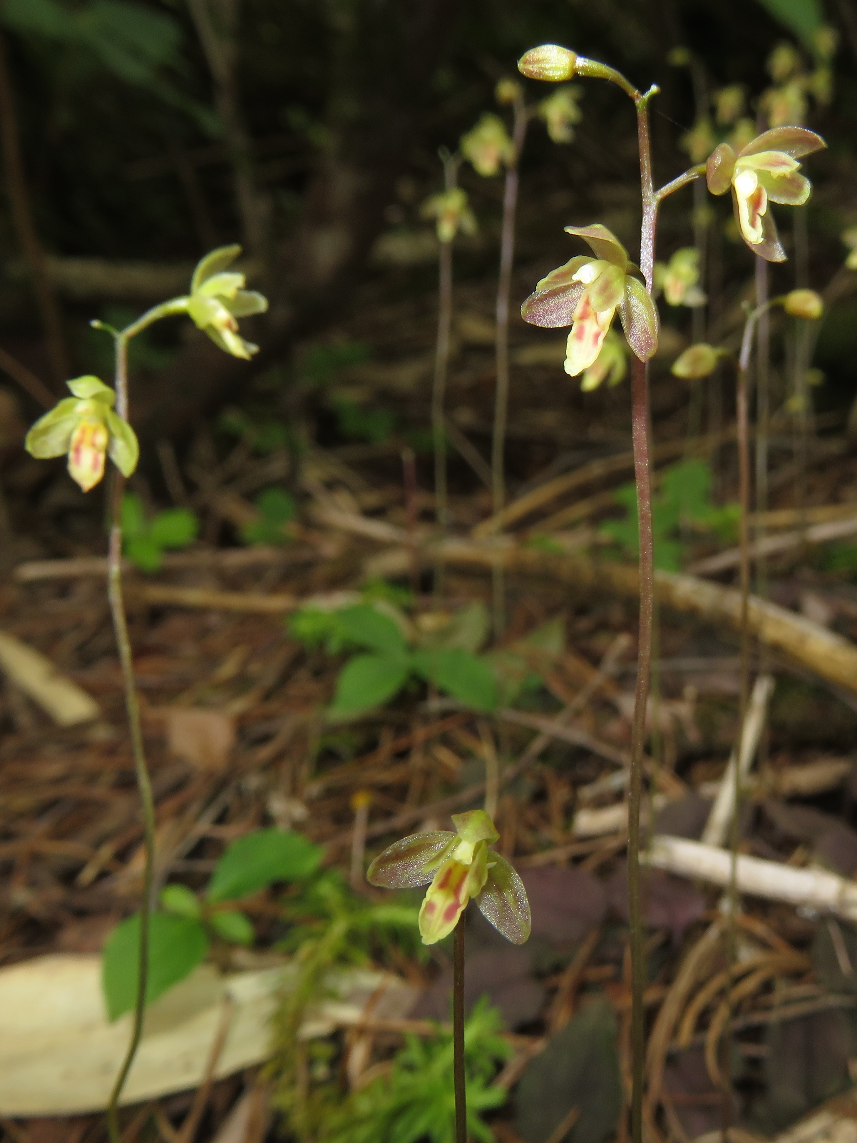 Ephippianthus schmidtii, Mount Adatara, Fukushima pref., Japan